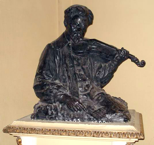 Statue of Jenő Hubay, Hungarian violonist. Sculptor: Miklós Ligeti. Palace of Music, Miskolc, Hungary